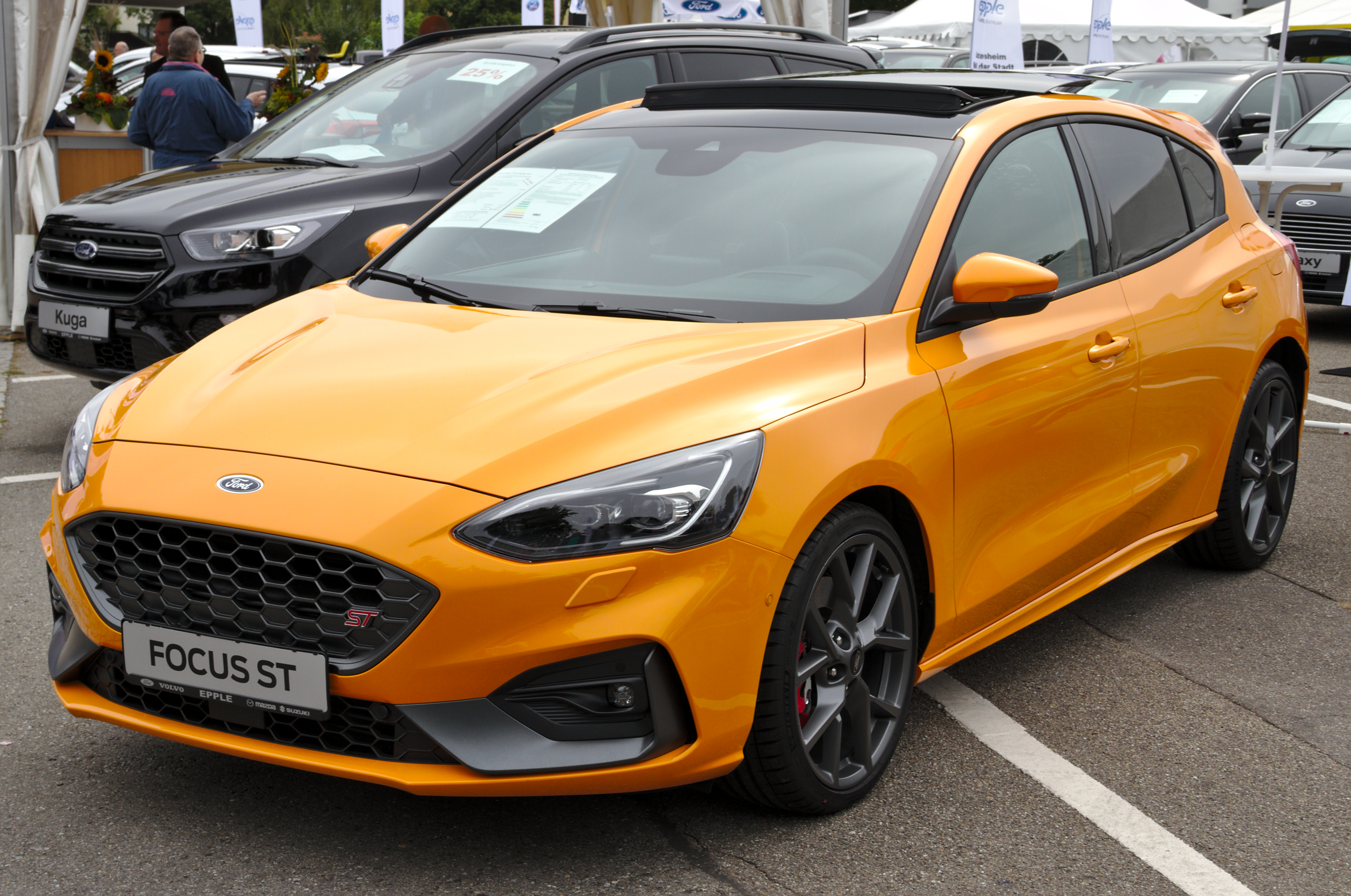 Ford_Focus_Mk_IV at Leonberger Autoschau 2019